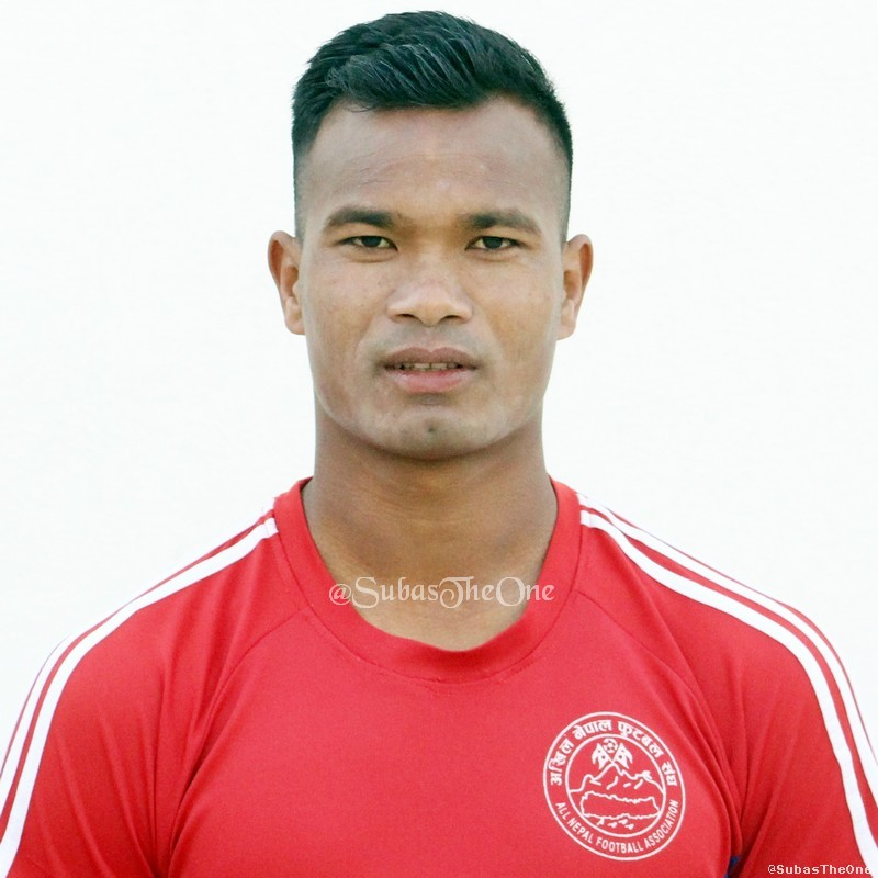 Portrait of Bharat Khawas by Subas Humagain